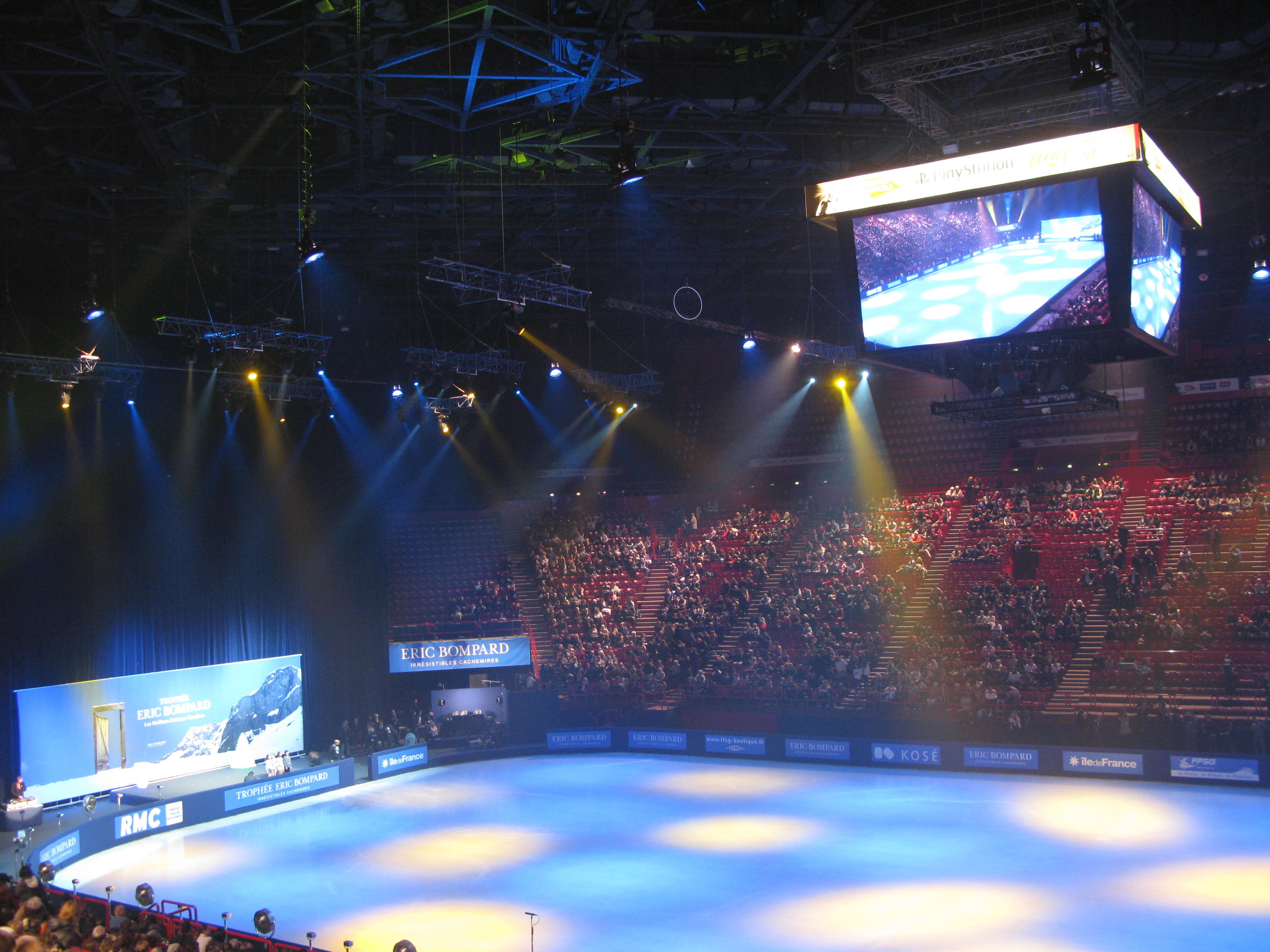 Temporary Ice-skating rink in Palais omnisports de Paris-Bercy at the 2013 Trophée Éric Bompard, Paris.